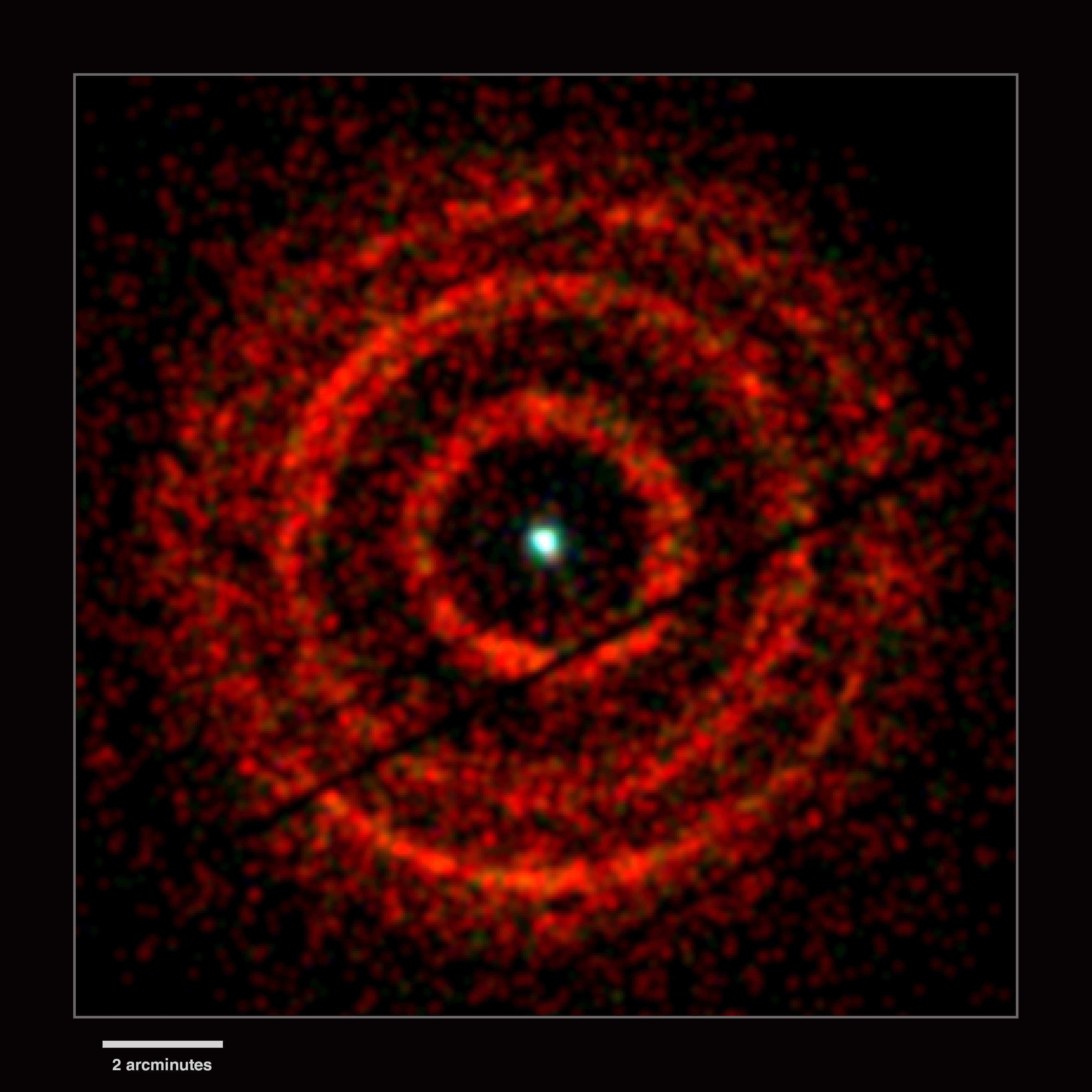 V404 Cygni is a low mass black hole binary system that periodically erupts as a Nova. The Swift x-ray satellite detected "light" echoes of x-rays from the latest eruption reflecting off rings of dust around the system.